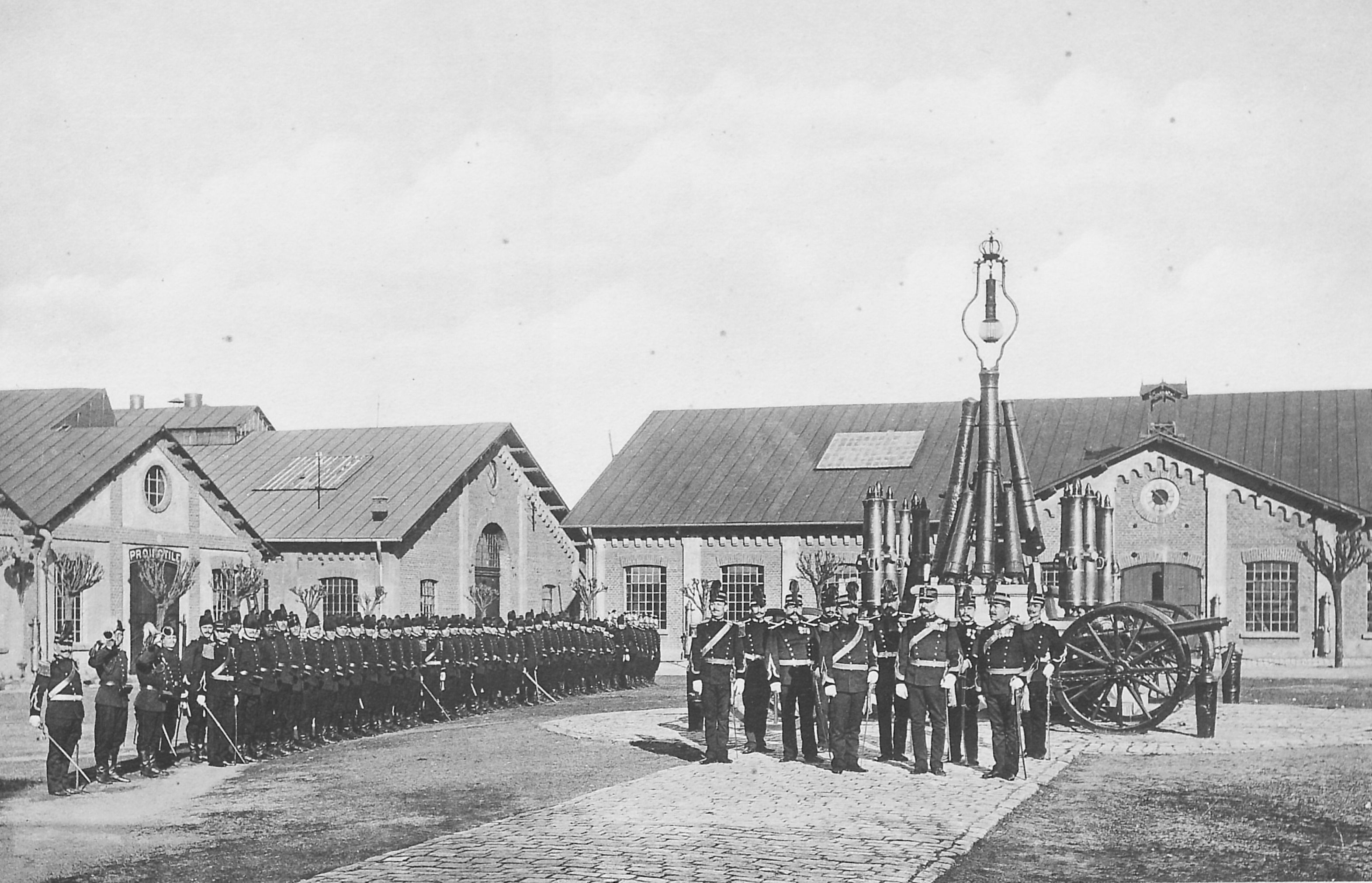 Arsenalul de Construcții București, 1902.